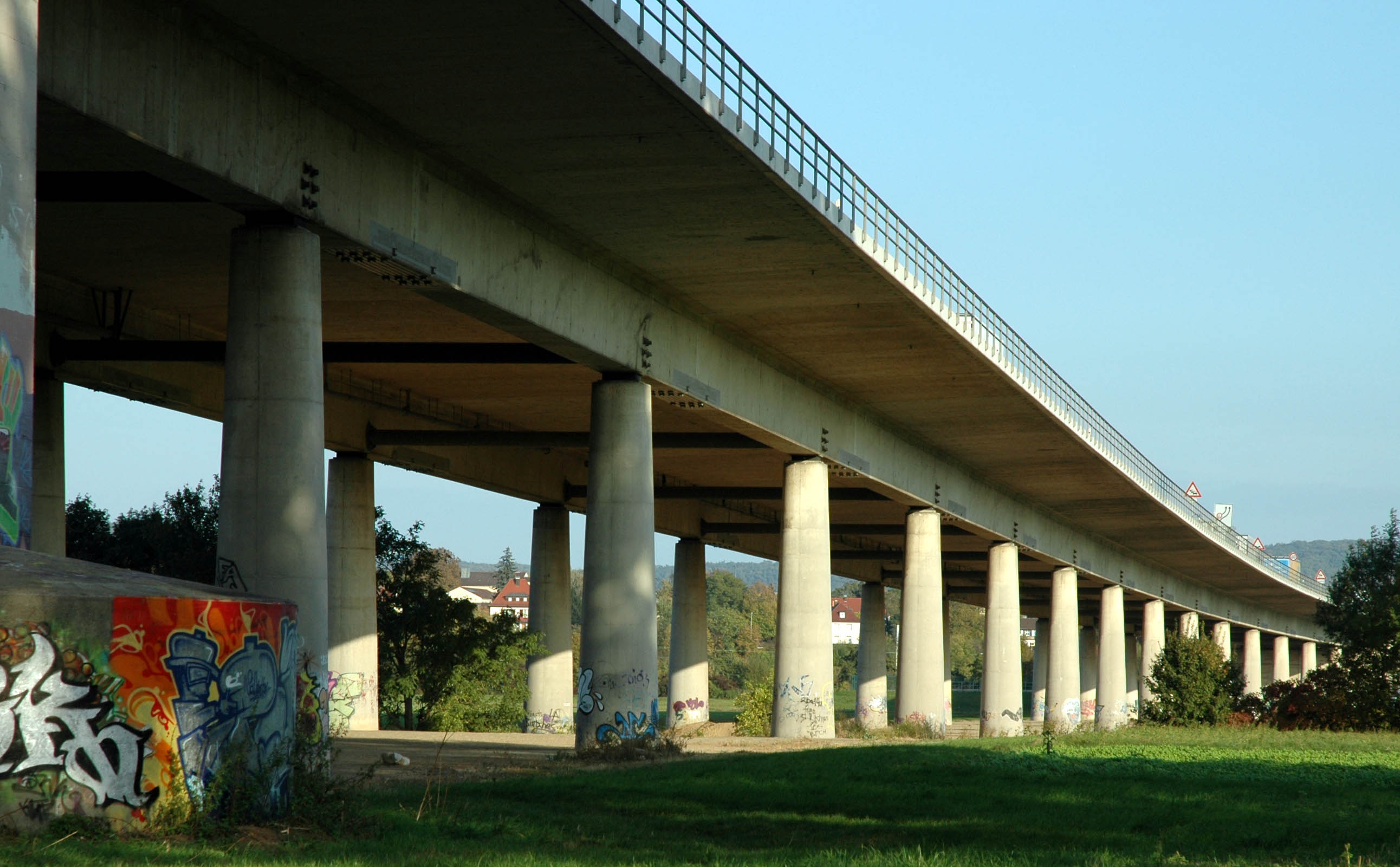 Neckar brigde of Autobahn A 6 near Heilbronn / Neckarsulm.